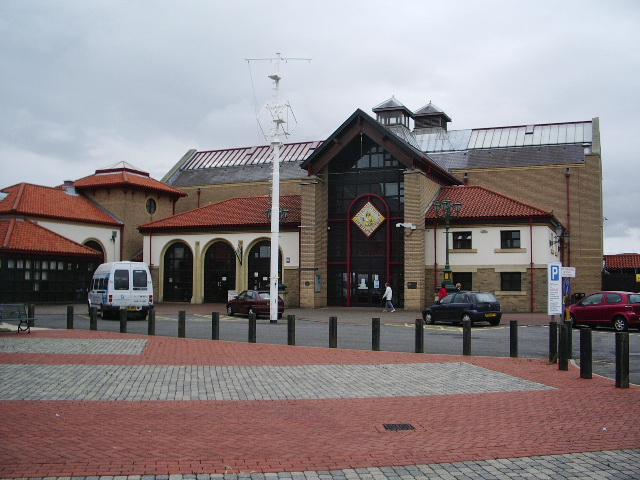 National Fishing Heritage Centre, Alexandra Dock, Grimsby